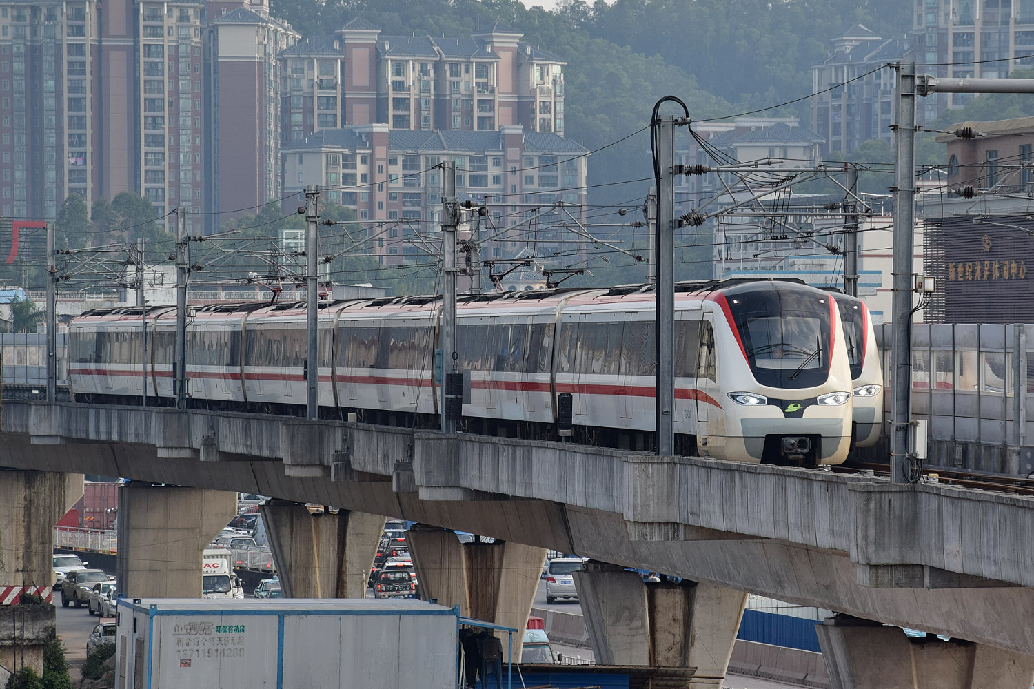 Dongguan Rail Transit Line 2 CIVAS Train was entering Humen Railway Station Station.